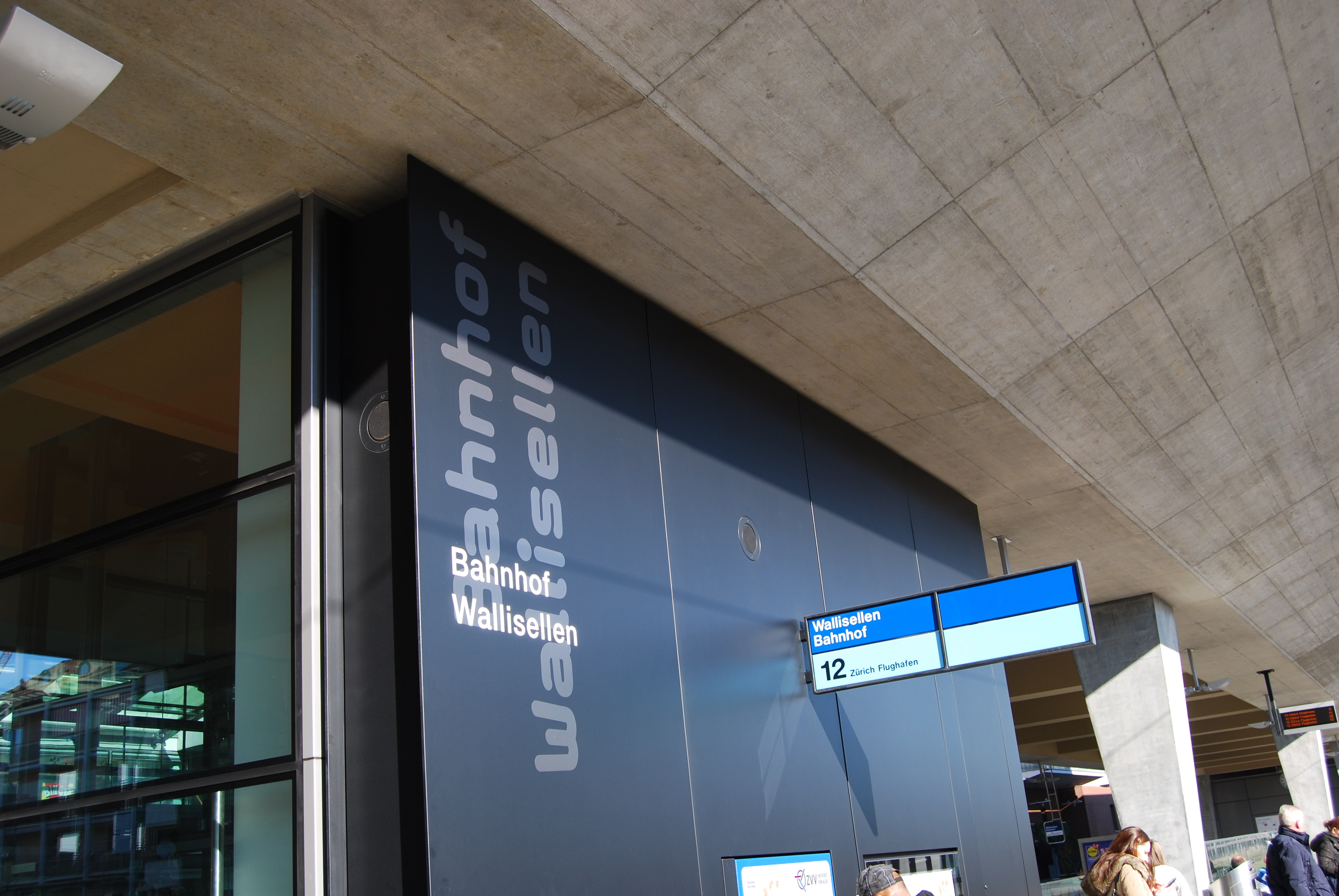 Railway station Wallisellen, canton of Zürich, Switzerland